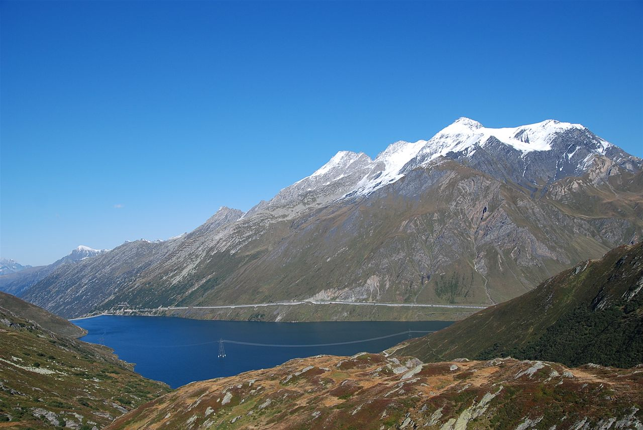 The Scopi (3190 m) seen from near Lukmanier Pass.